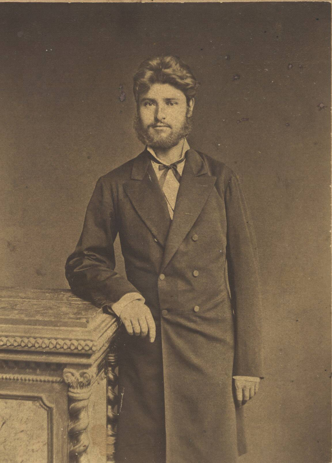 Bulgarian revolutionary Radi Ivanov